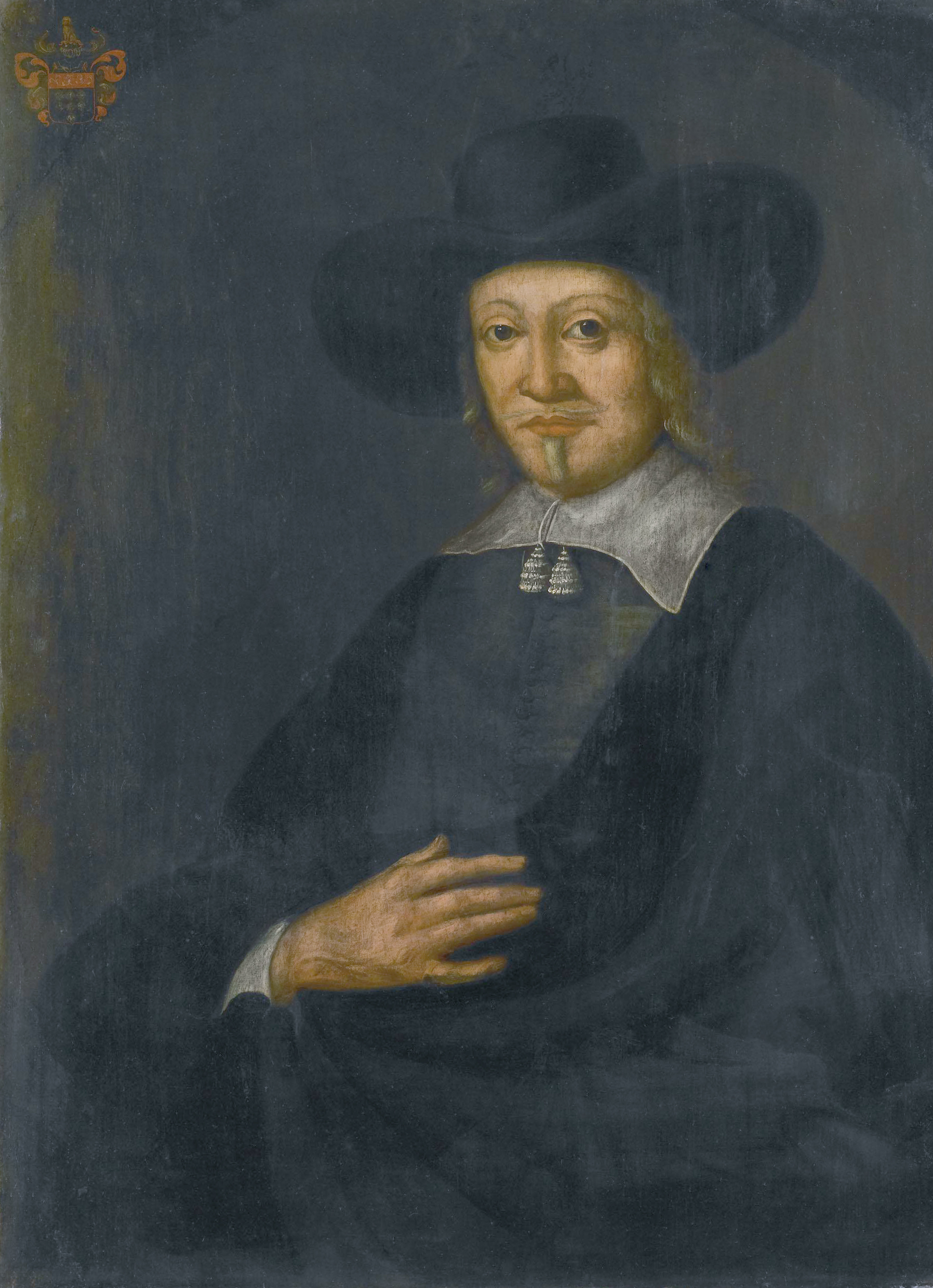 Portrait of Karel Reyniersz., Governor-General of the Dutch East Indies from 1650 to 1653. Part of the Governors-general series.